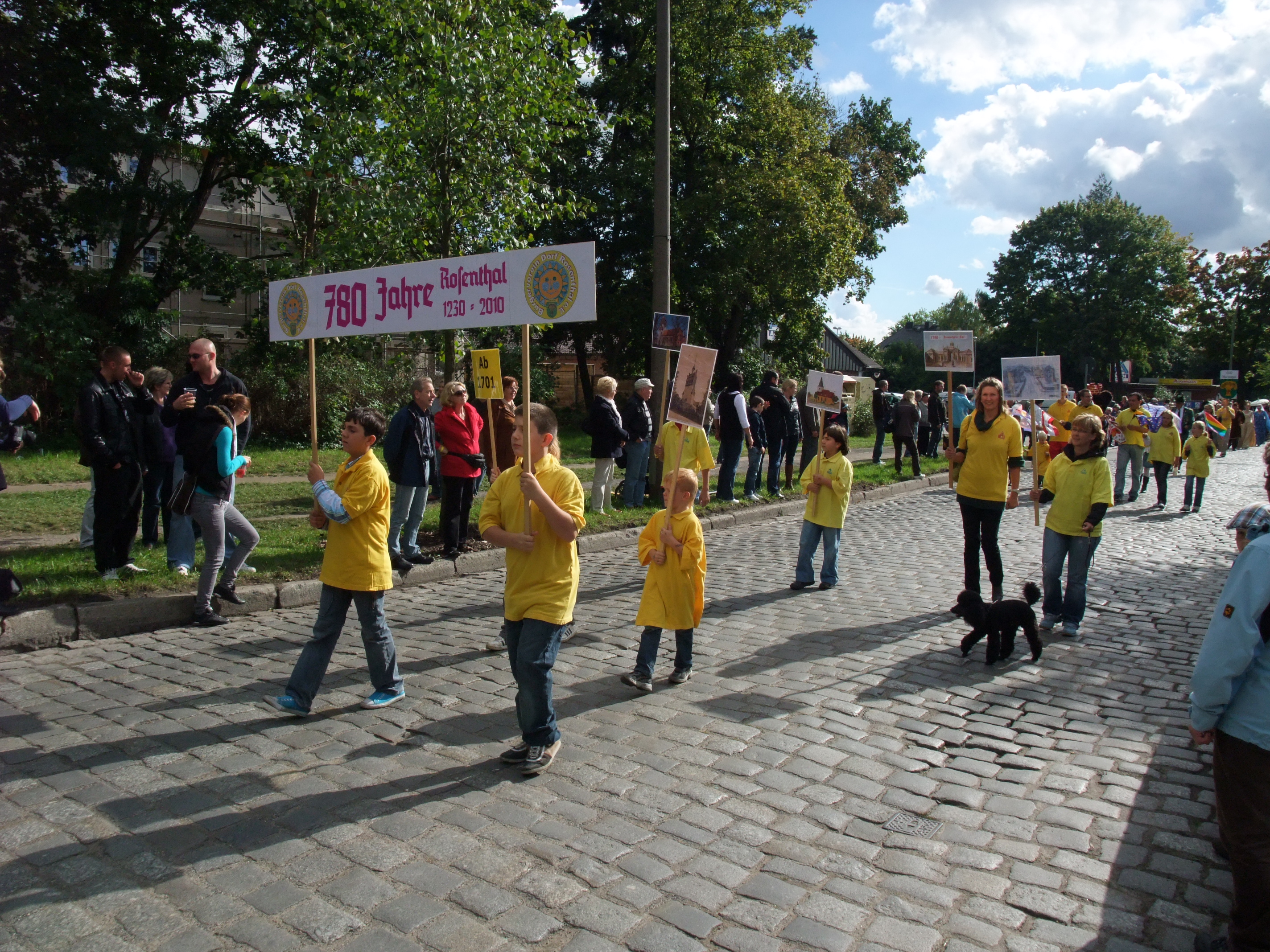 37th Rosenthal Fall (Thanksgiving) in Berlin-Rosenthal, Germany